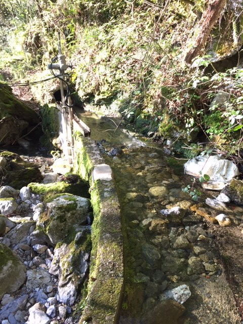 cannal to bring water from Illunbe erreka to Elektralkiza